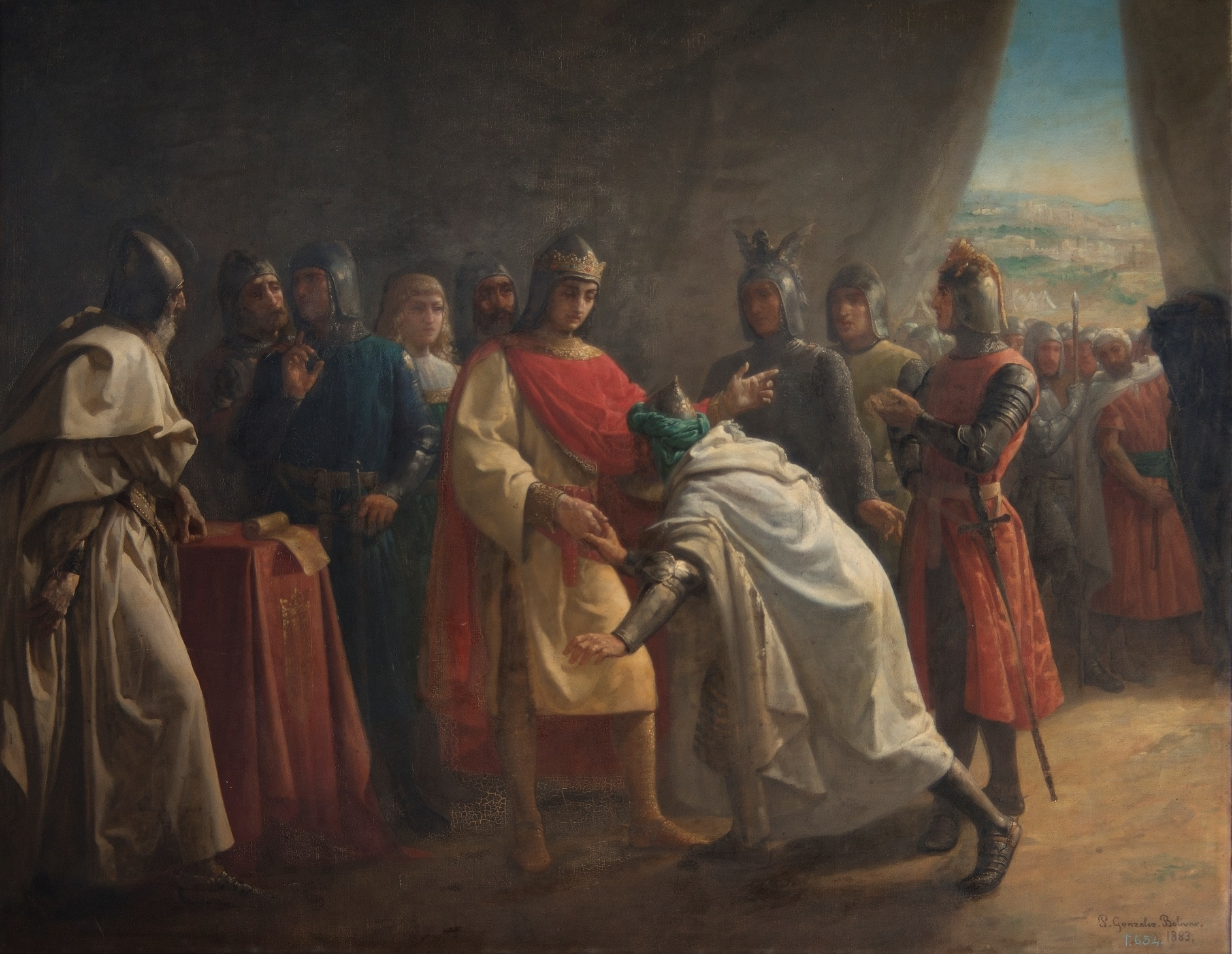 Painting depicting Muhammad I of Granada kissing the hand of Ferdinand III of Castile, while surrendering Jaén and agreeing to be his vassal. The surrender of Jaén and the vassalage agreement took place in March 1246.